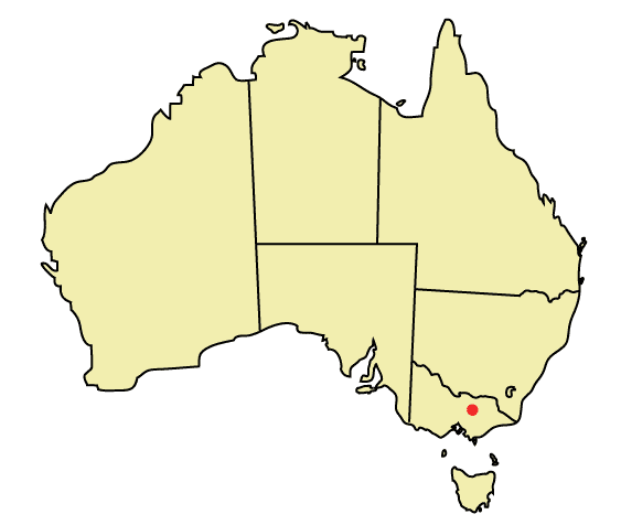 Red dot shows location of Benalla, Victoria.